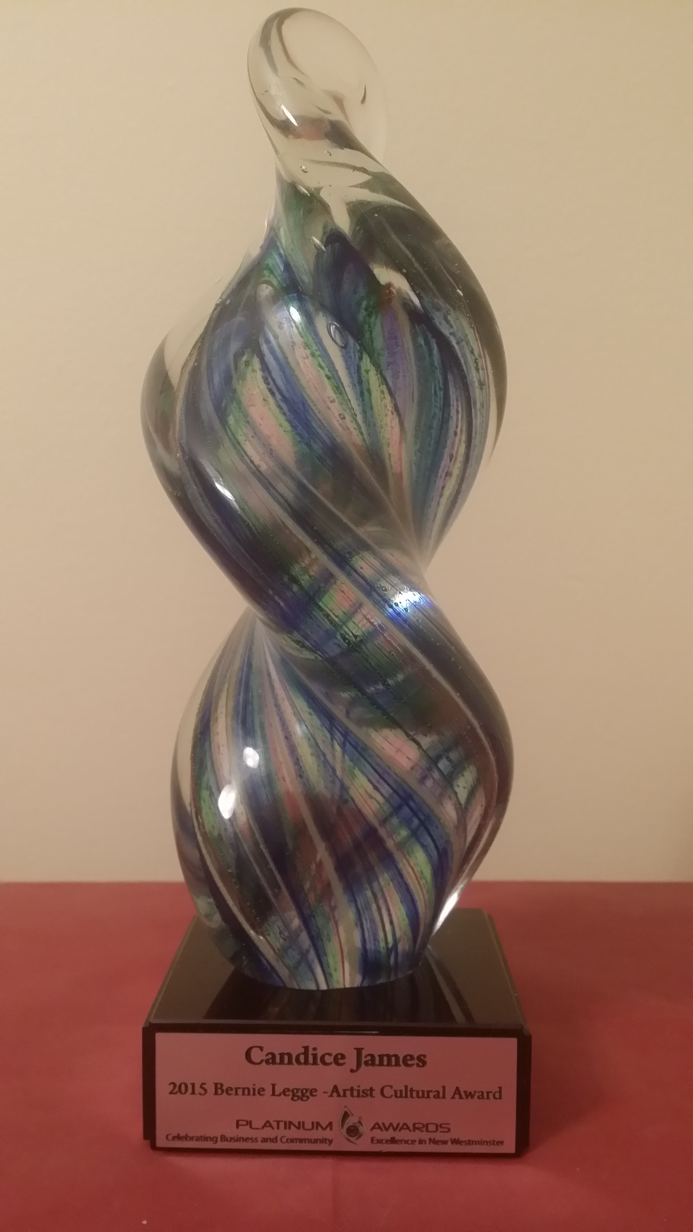 Bernie Legge Artist Cultural Award 2015